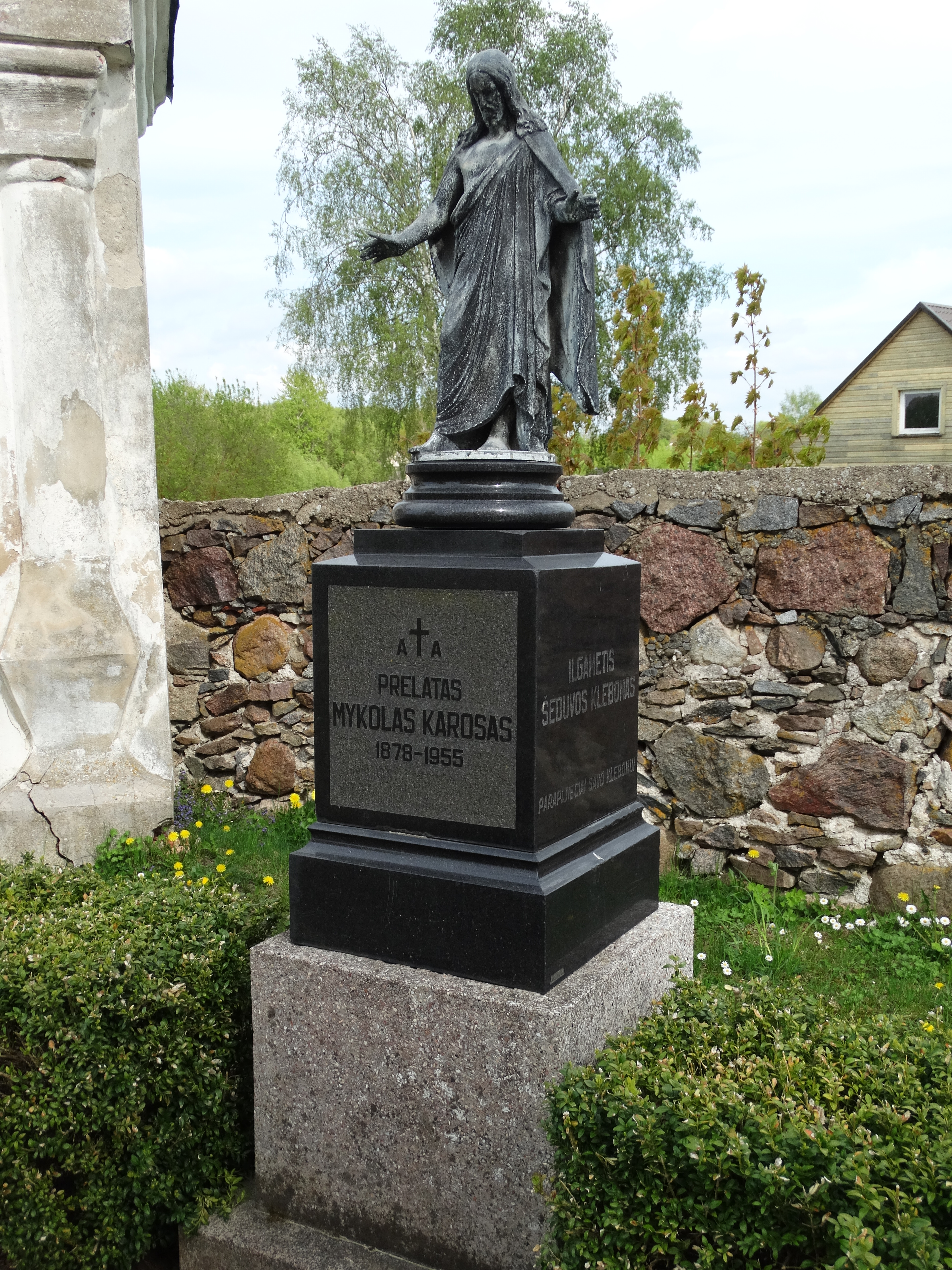 Catholic Church, tomb of Mykolas Karosas, Šeduva, Lithuania